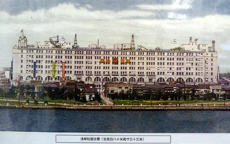 Matsuya department store in Asakusa opened in 1931, view over Sumida River. The building is 180 m wide and 33 m height.